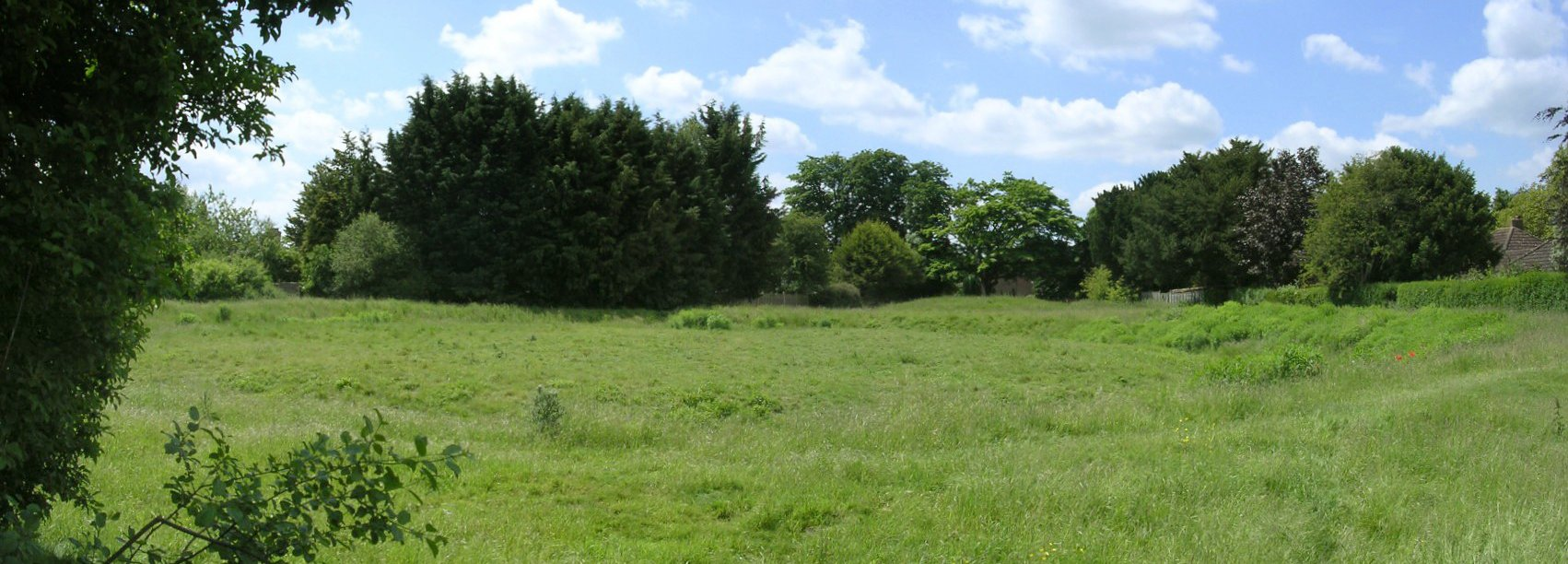 Composite photo of the disc barrow at Flowerdown, near Winchester, Hampshire. The bowl barrow is in the background.